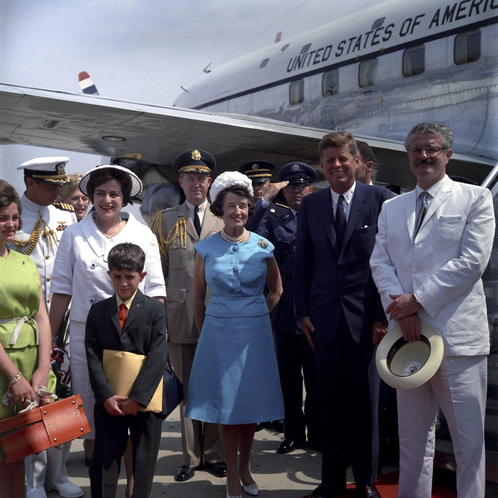 Arrival ceremony for Carlos Julio Arosemena Monroy, President of Ecuador, 23 July 1962. 11:00AM “Robert Knudsen. White House Photographs. John F. Kennedy Presidential Library and Museum, Boston”